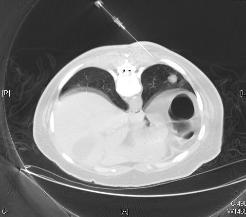 Peripheral typical carcinoid tumor - CT scan - Case 266